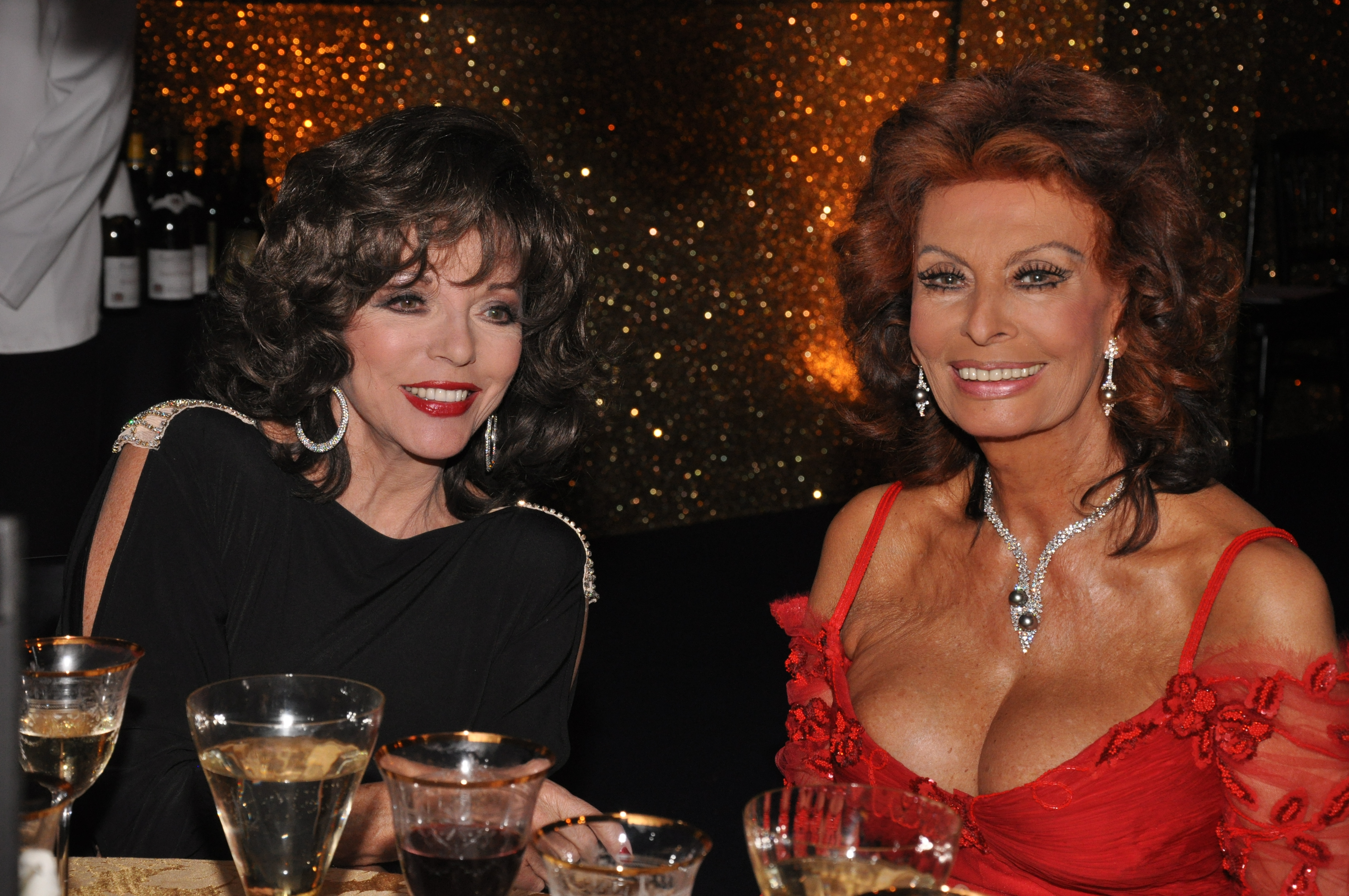 Joan Collins and Sophia Loren, 2009.